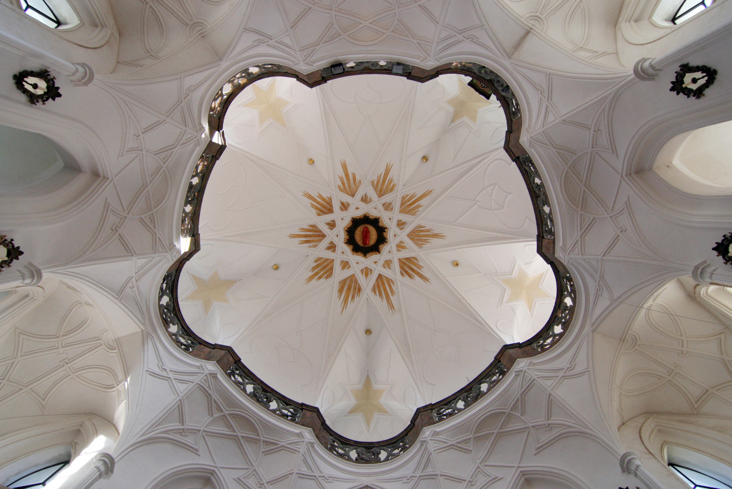 Baroque dome at the Pilgrimage Church of Saint John of Nepomuk in Zelena Hora